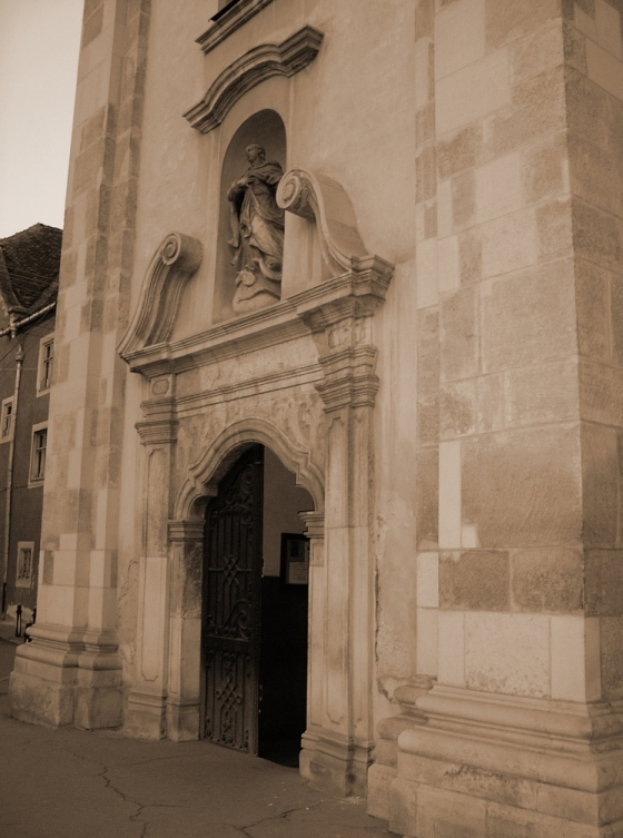 Entry in the Franciscan Church, Cluj-Napoca